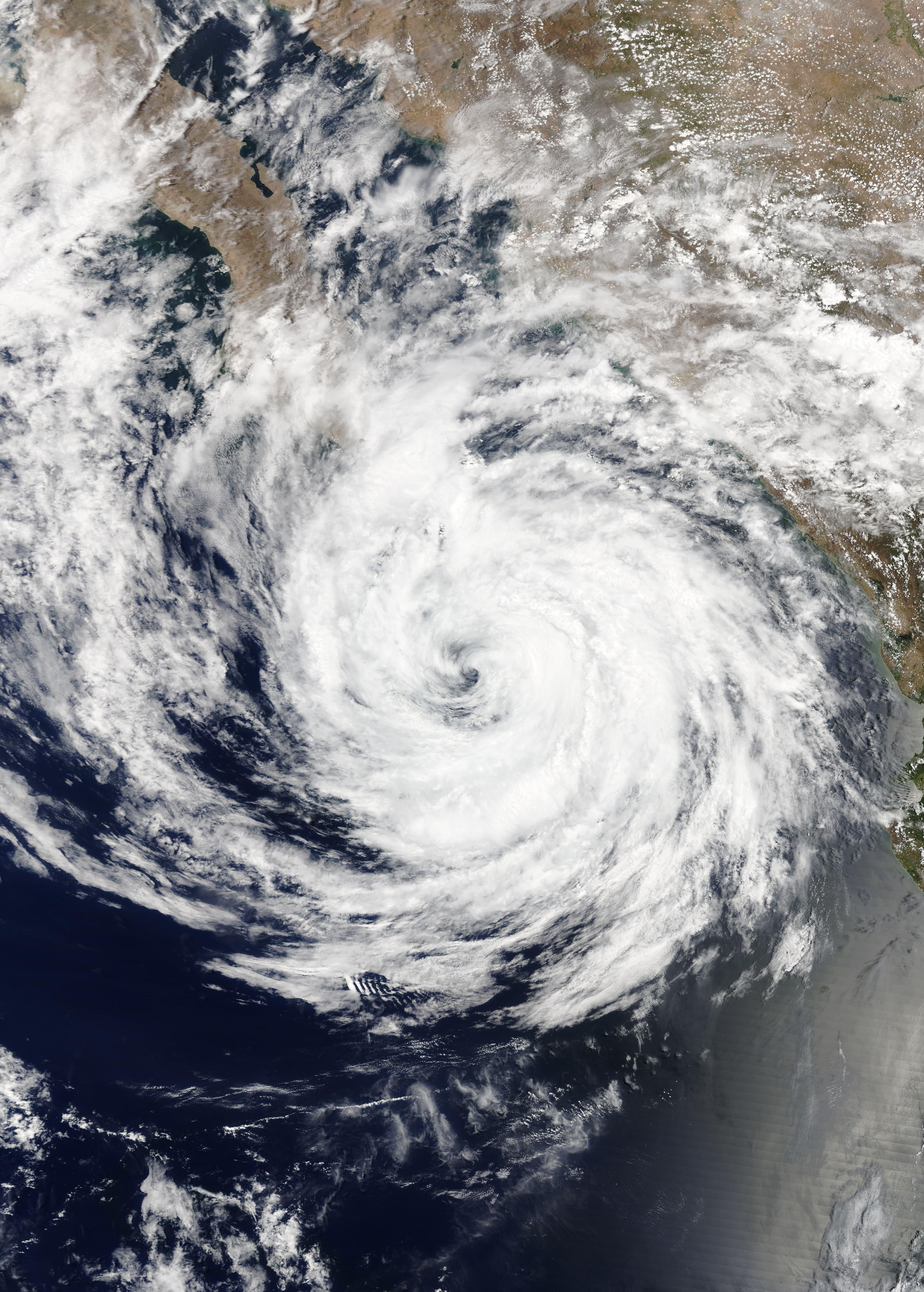 Tropical Storm Bud approaching Baja California Sur on June 14, 2018